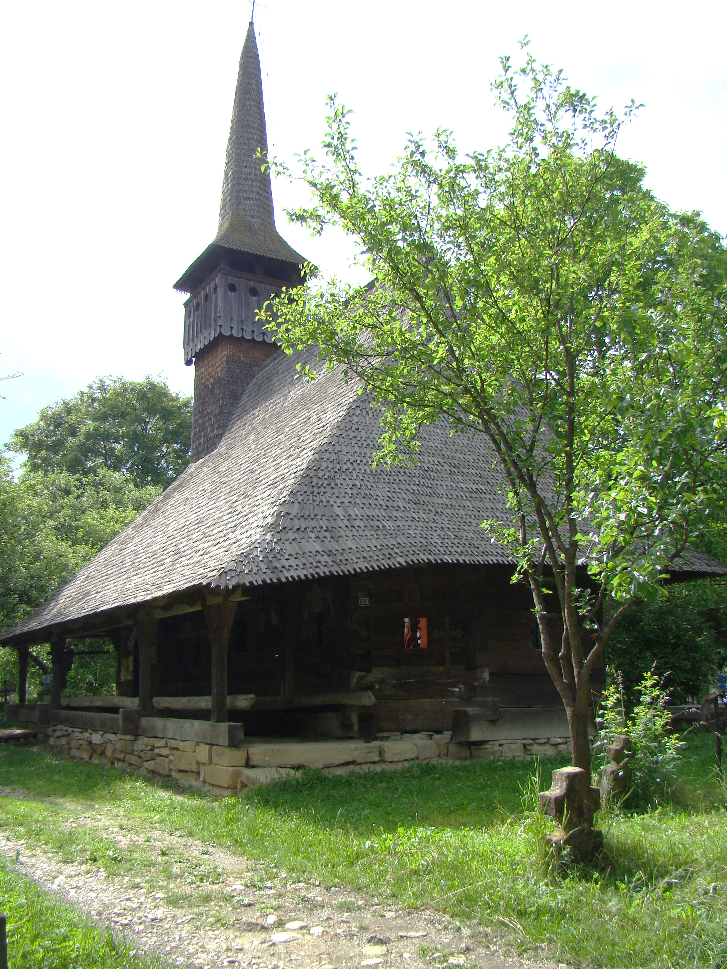 Wooden church in Lăpuş, Maramureş